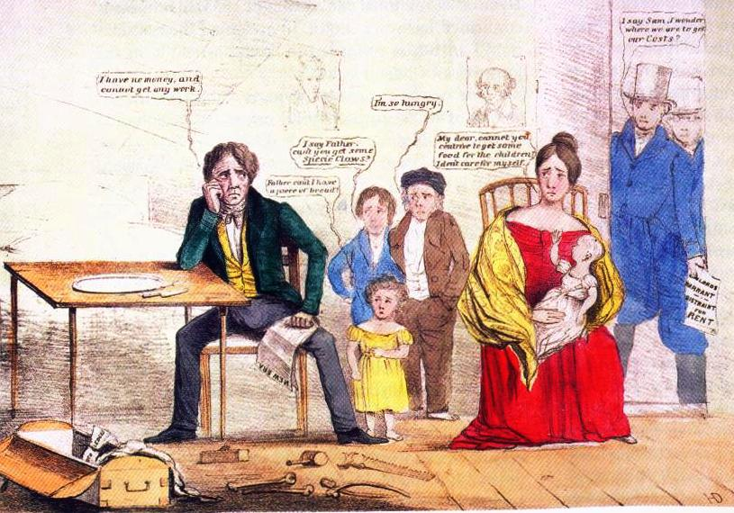 US Whig poster showing unemployment in 1837